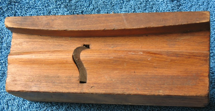 molding plane, cornice plane.